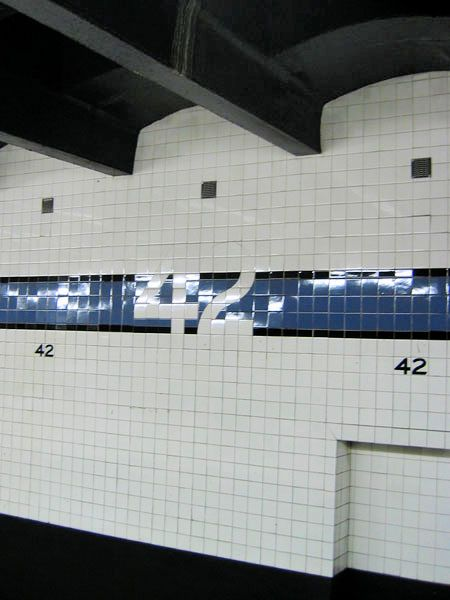 One of the key features of IND stations was — in contrast to the first IRT stations — their simplicity. The walls were tiled white all over but a horizontal color stripe. The color scheme was all the same between two express stations. That was intended to help passengers to find their bearings.The name of the station was tiled again and again directly below.During the last years the color schemes were somewhat given up. The white “42” comes from renovations that took place after 2000. The blue color is not so original, too.